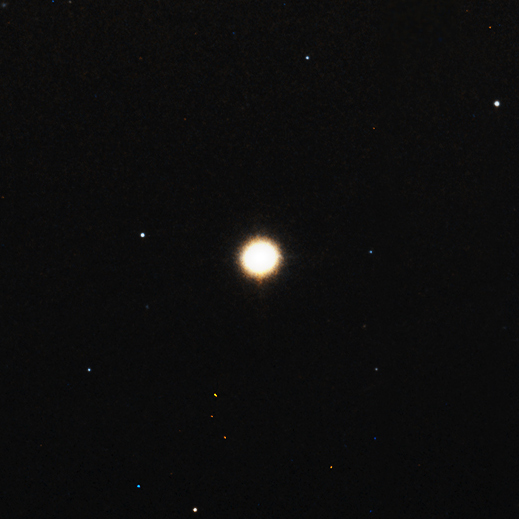 The galaxy known as M60-UCD1 is located near a massive elliptical galaxy NGC 4649, also called M60, about 54 million light-years from Earth. Packed with an extraordinary number of stars, M60-UCD1 is an "ultra-compact dwarf galaxy." At the time of discovery, it is one of the most massive galaxies of its kind, weighing 200 million times more than our Sun, based on observations with the Keck 10-meter telescope in Hawaii. Remarkably, about half of this mass is found within a radius of only about 80 light-years. This would make the density of stars about 15,000 times greater than found in Earth's neighborhood in the Milky Way, meaning that the stars are about 25 times closer.